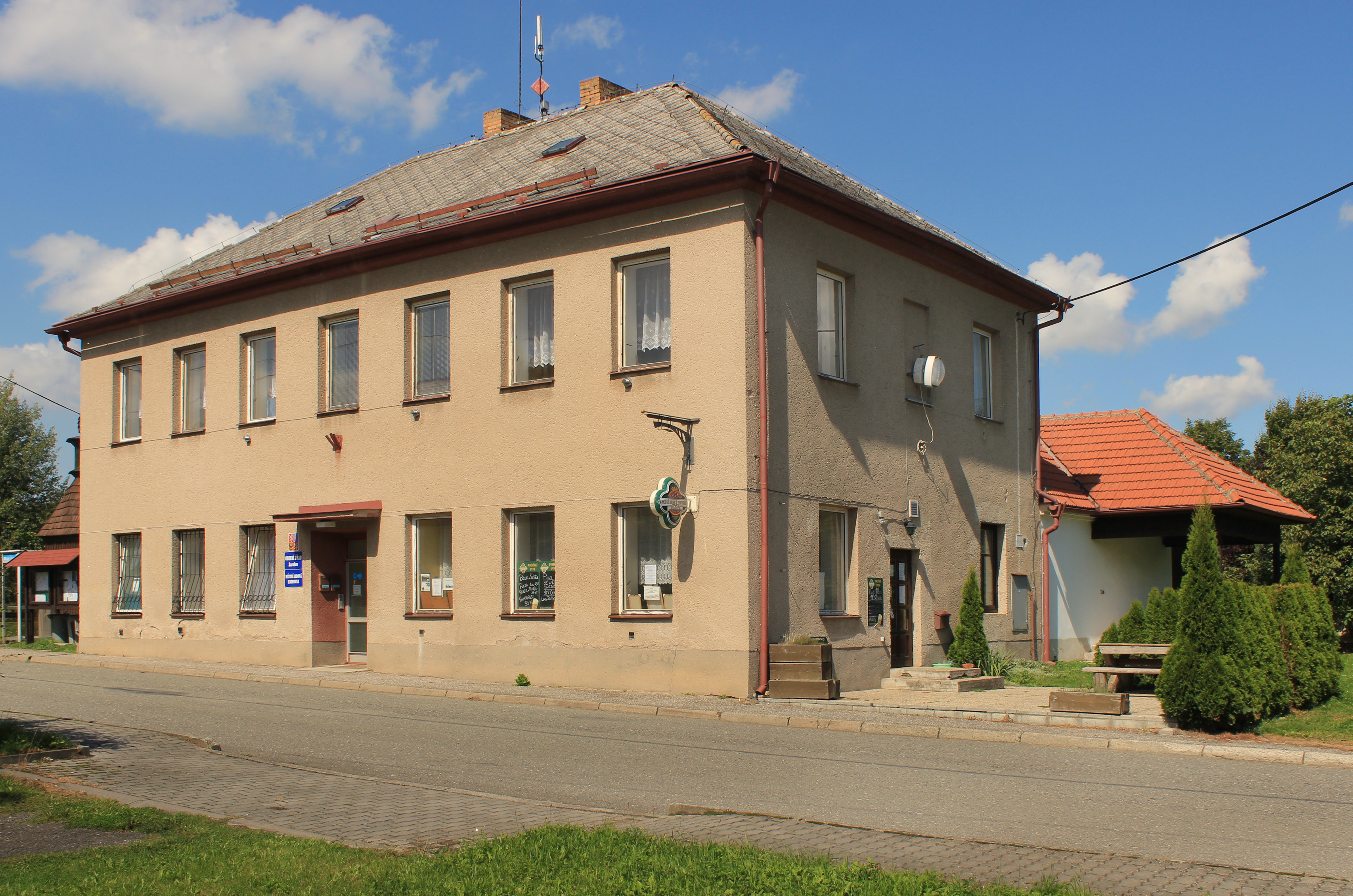 Municipal office in Jarošov, Czech Republic.